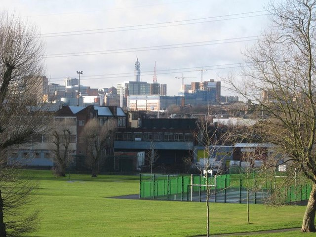 Adderley Park and City skyline View of city skyline, including BT telecom tower, from elevated section of Adderley Park (in the Park) alongside Hams Road.